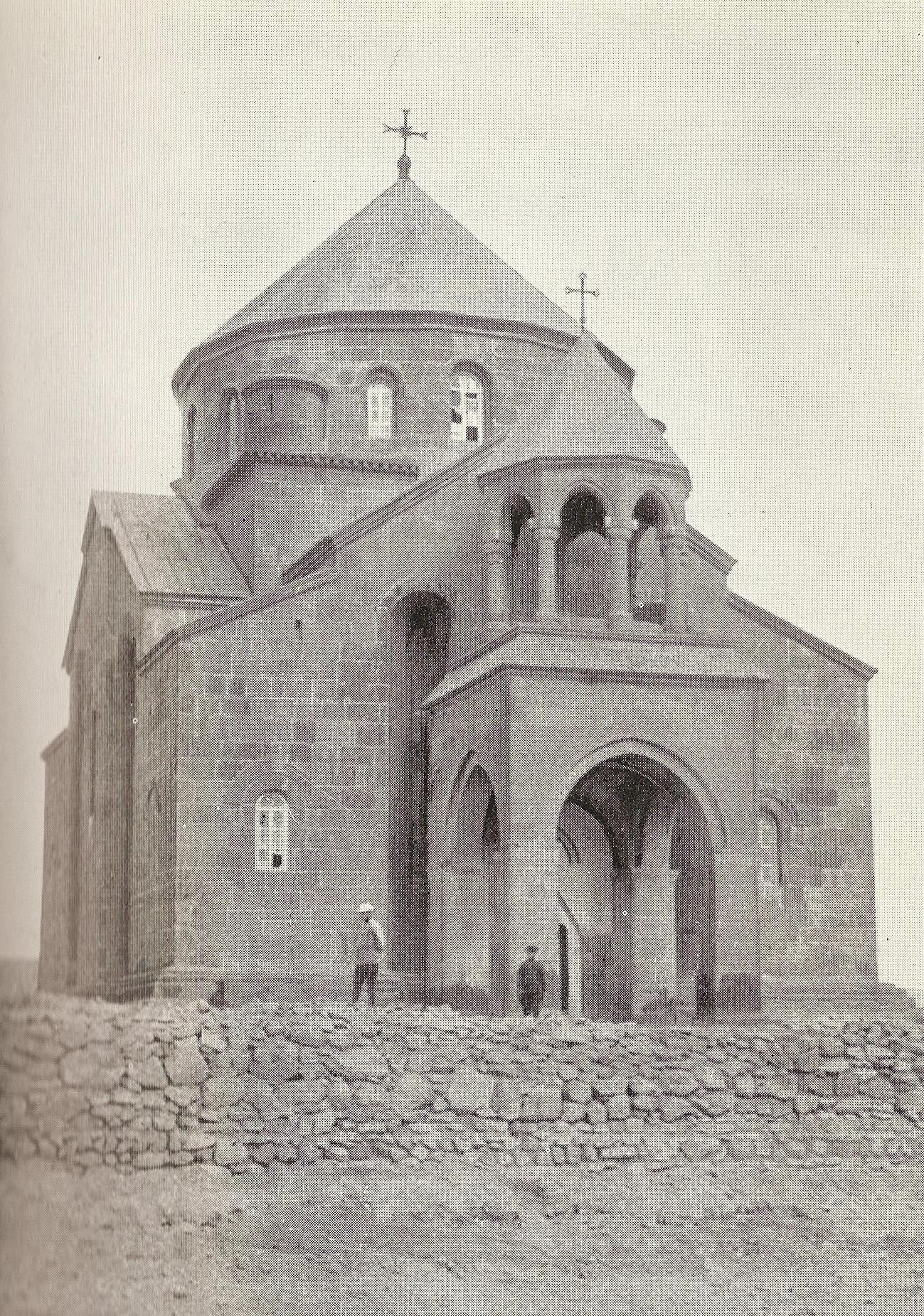 The Church of St. Hripsime in 1927, photo made by Fridtjof Nansen when he traveled trought Georgia and Armenia the same year.